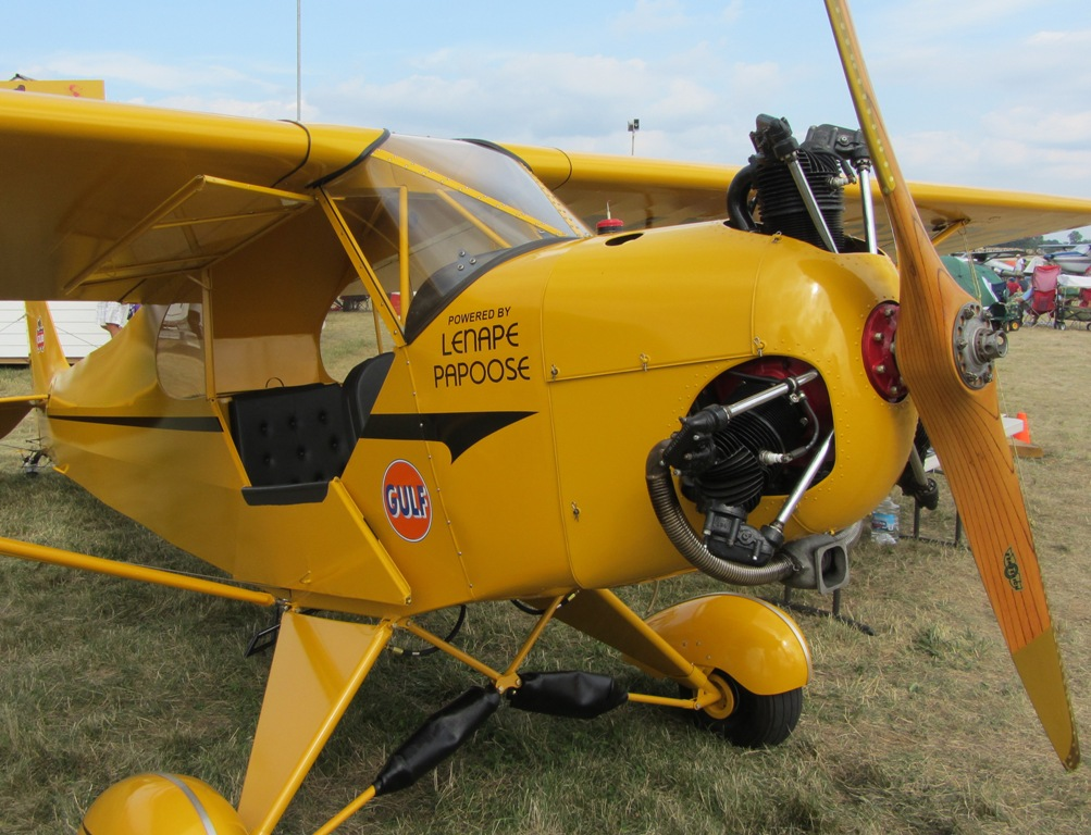 Piper J-3P